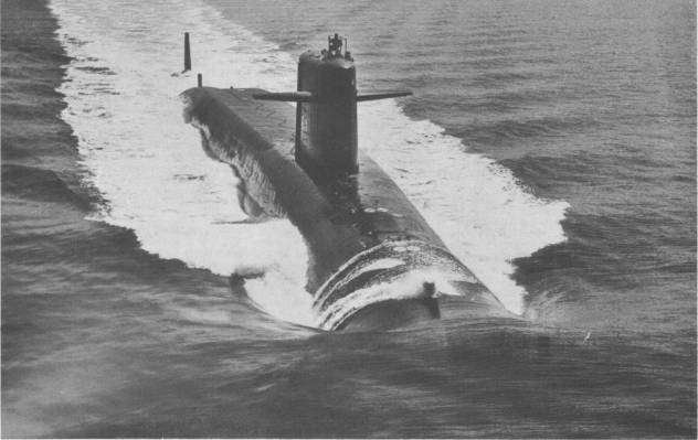 USS John Marshall (SSB(N)-611) departing Newport News